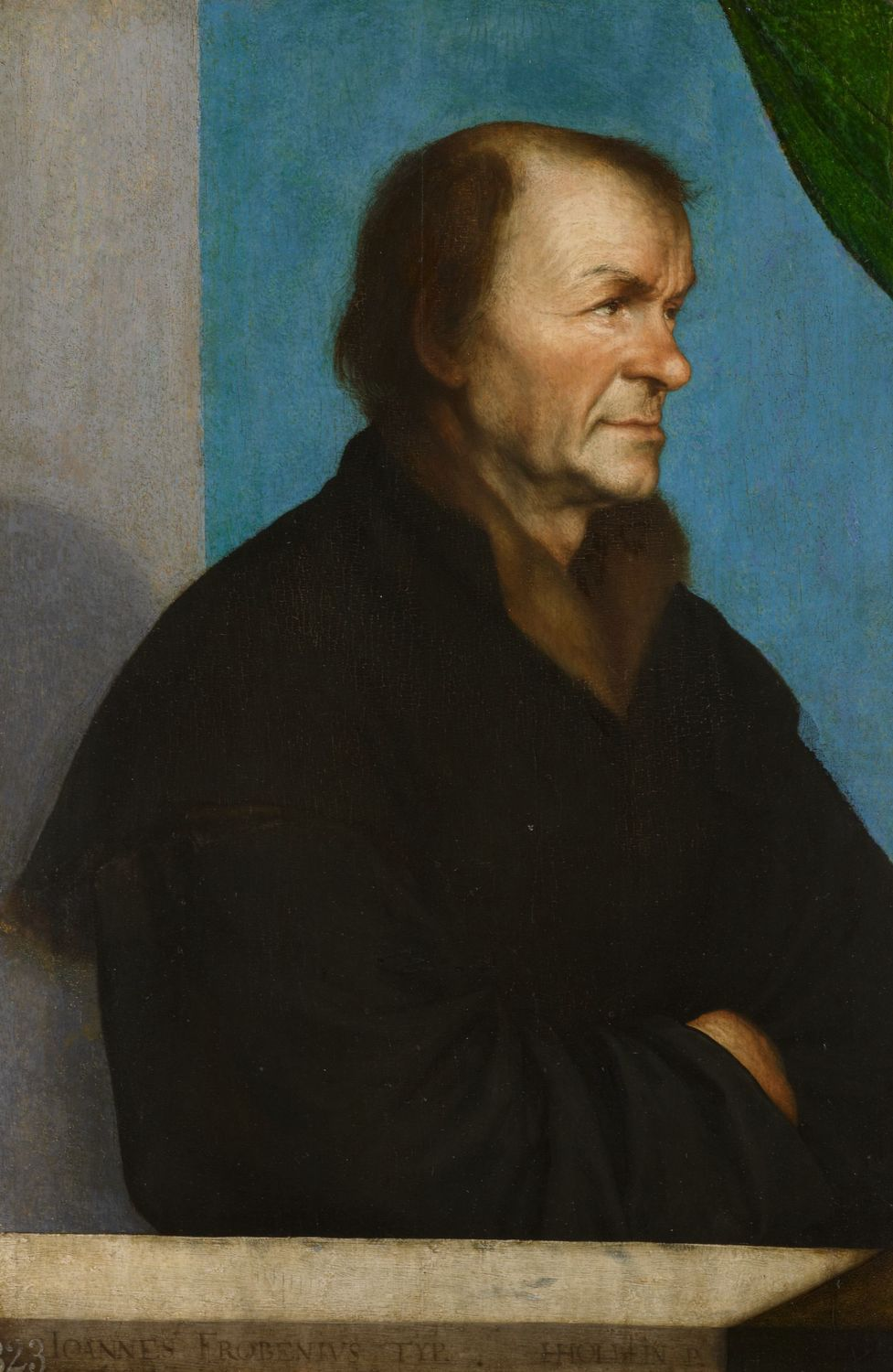 Portrait of Johannes Froben. Oil on panel, 48.8 x 32.4 cm, Royal Collection, RCIN 403035. Johann Froben (1460–1527) was a noted book printer in Basel. He was a close associate of Desiderius Erasmus, whose works he published and who, for a time, was a guest at his home. Hans Holbein the Younger met Erasmus through Froben, for whom he designed many book illustrations. He may have painted the original in the early 1520s, prior to his departure for England in 1526.